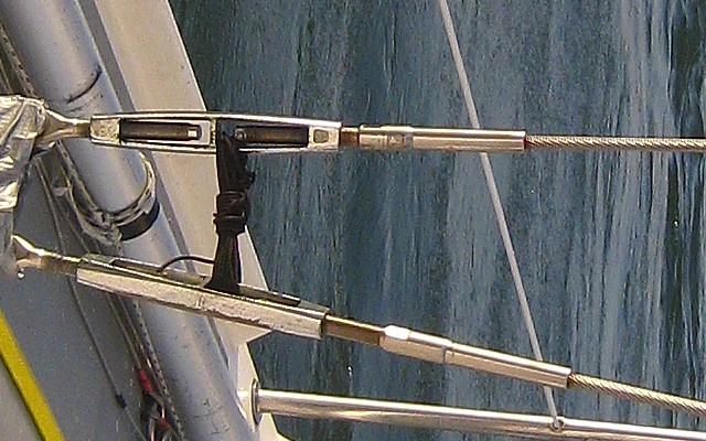 Wire ropes with swaged steel end connections and turnbuckles on a sailboat